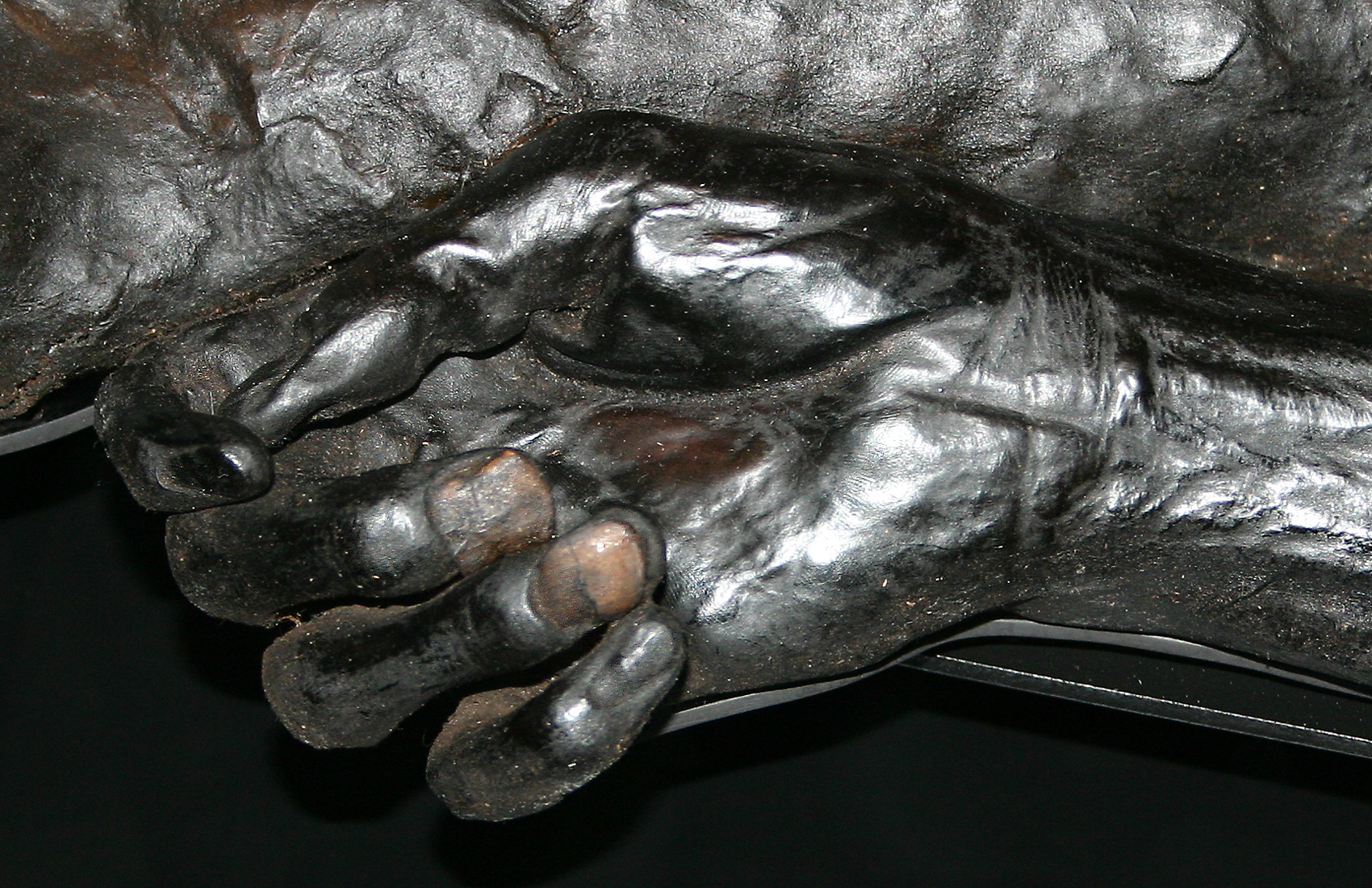 Hand of the Grauballemann at Mosegaard Museum, Denmark